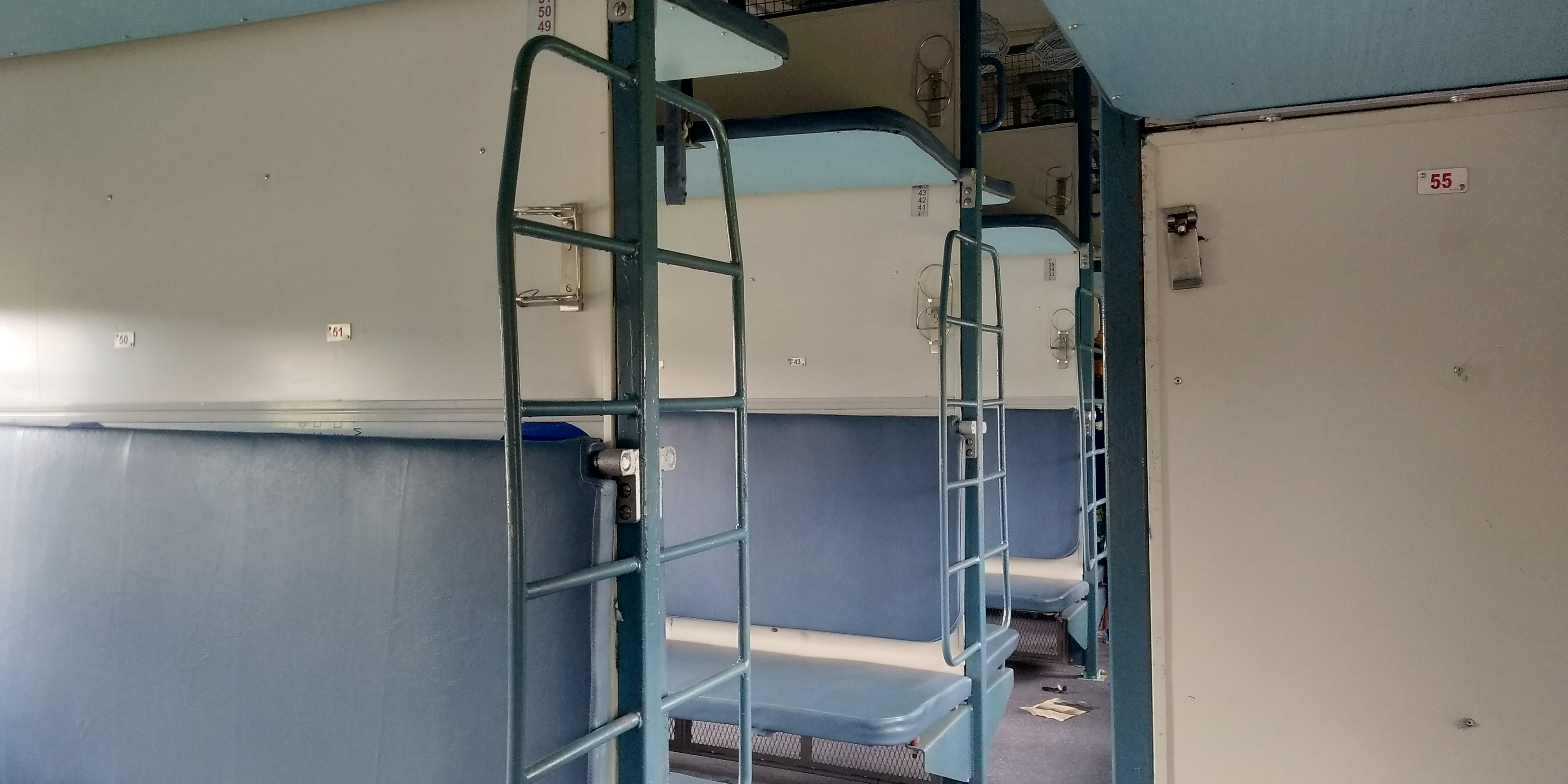 Inside an Indian Railways Train - Sleeper Coach